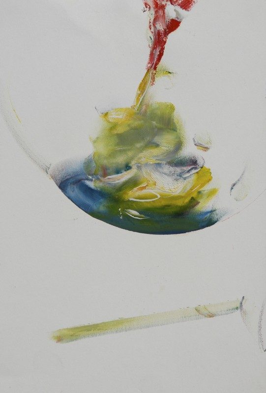 View from above - gouache on paper (22 x 15 cm) 2007